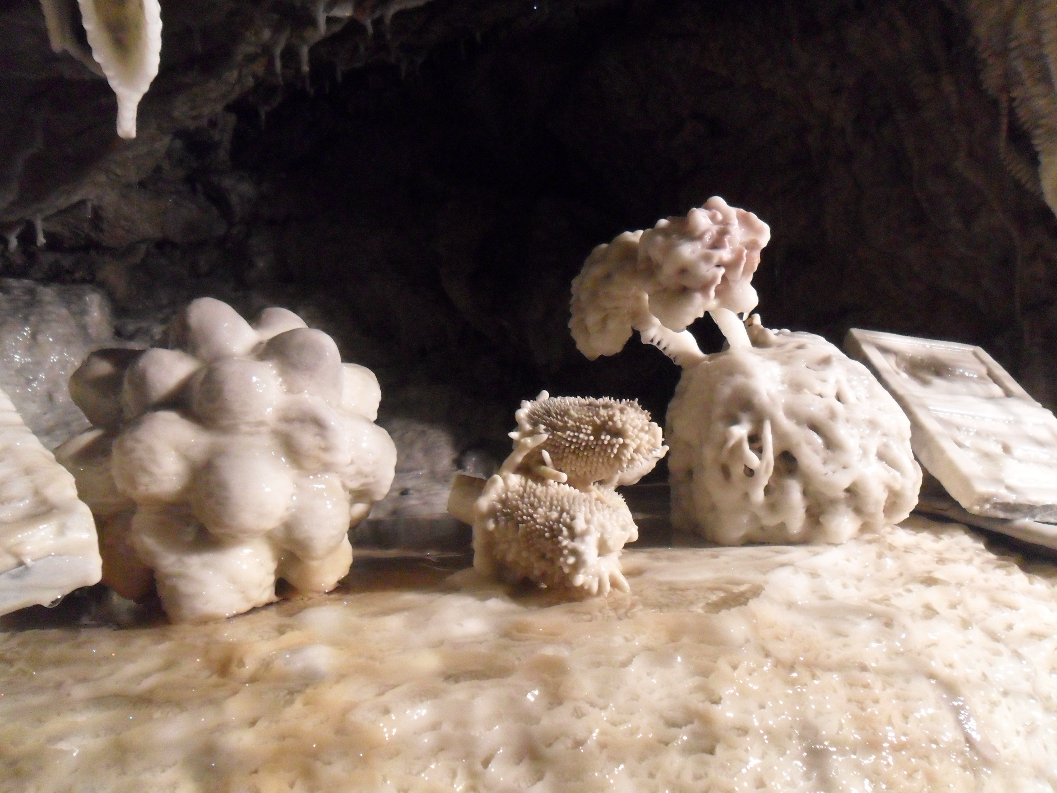 Petrified objects in the first grotto at Les Grottes Pétrifiantes de Savonnières. On the right is a glass vase wrapped in wood fibres, with carnations soaked in paraffin to prevent them from falling apart. In the middle is a bouquet of teasels, and on the left is a group of pine cones. These objects have been under a high-limestone spring for eight years (as of the writing of the pamphlet; unknown when this was).